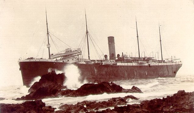 The White Star liner Suevic aground on The Lizard in 1907